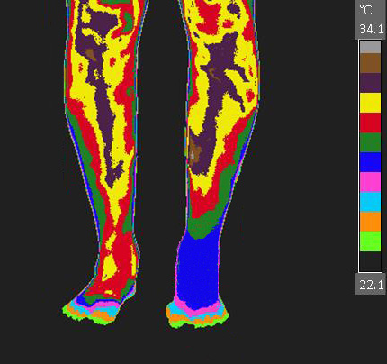 Using the temperature pallet on the right you can see that the left foot is much colder then the surrounding regions and the right foot